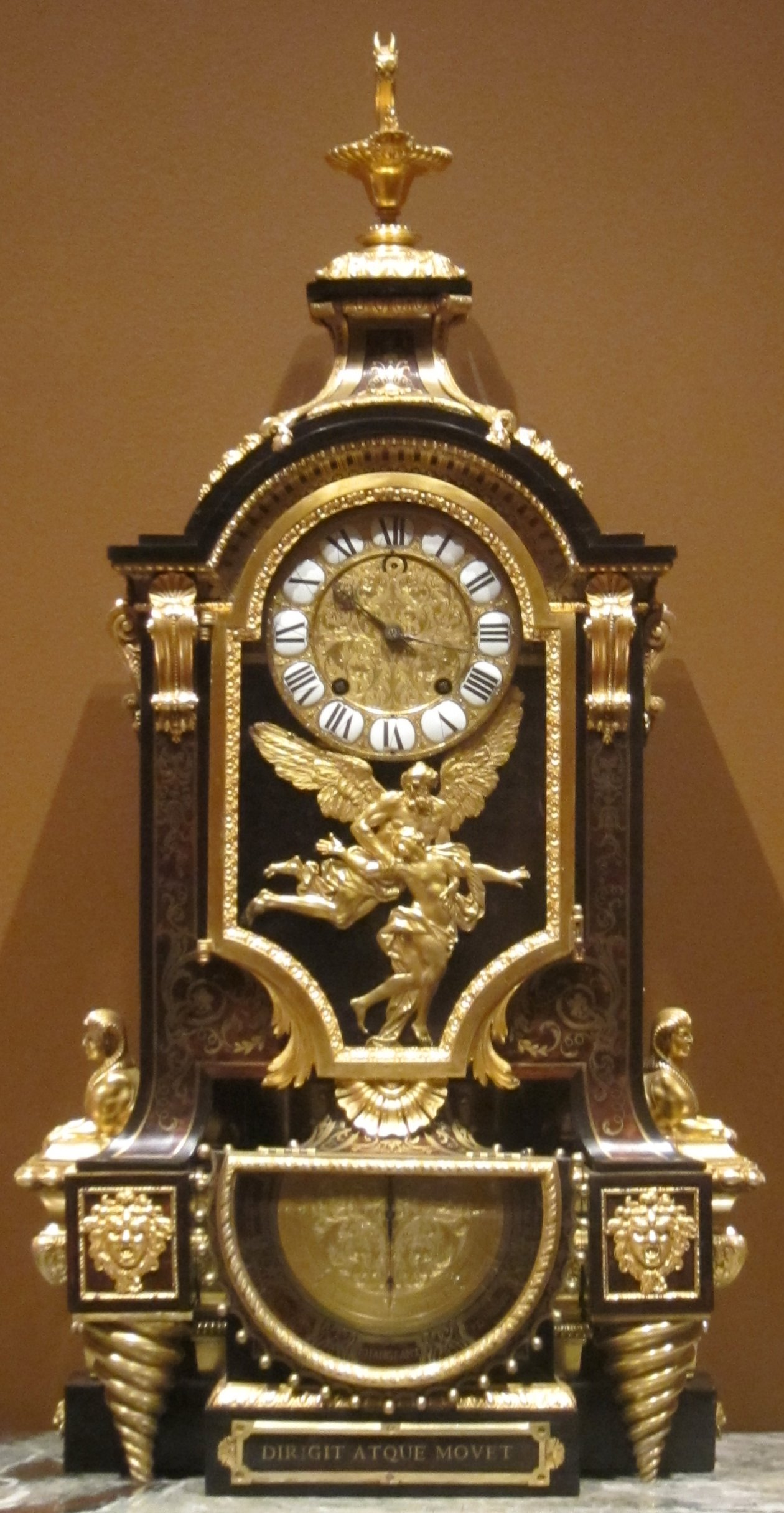 Clock, c. 1695, tortoise shell and brass inlay, gilt bronze, André-Charles Boulle, clockworks by Balthasar Martinot, Cleveland Museum of Art